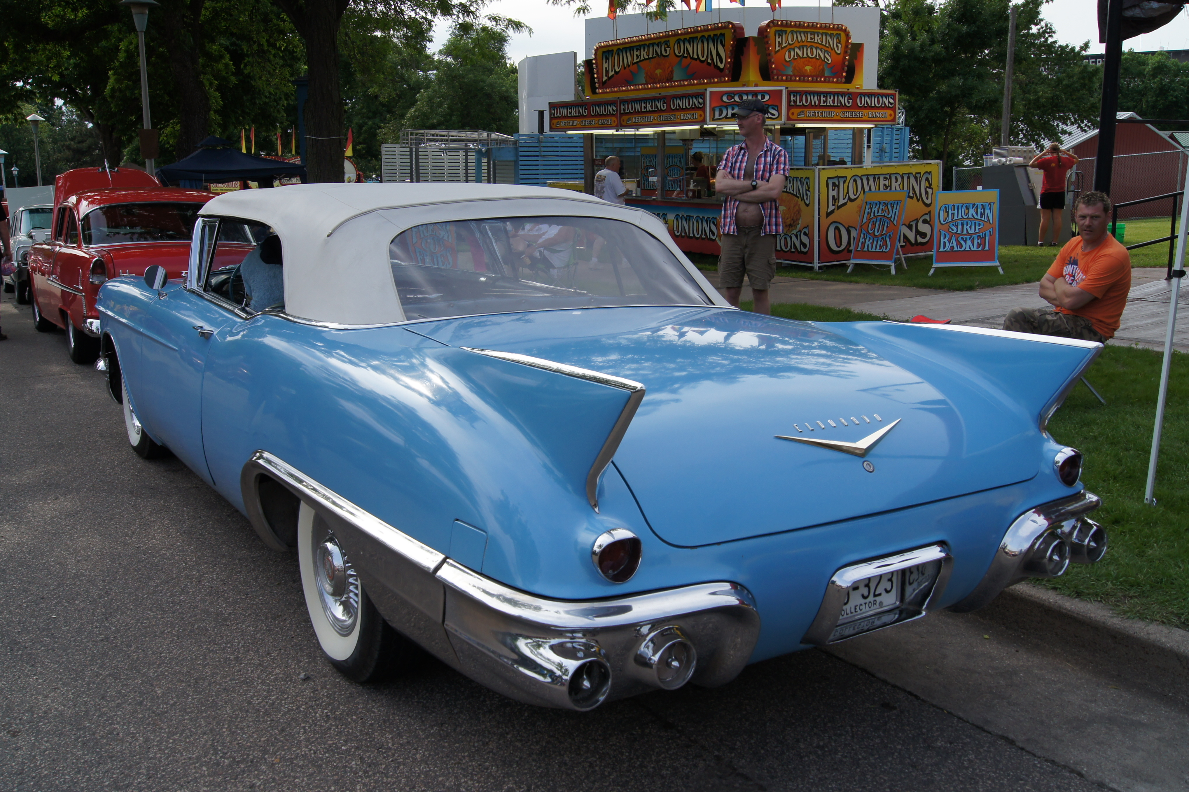 MSRA “BACK TO THE 50′s” 40th ANNIVERSARY June 21-23, 2013 State Fairgrounds St. Paul Minnesota More Car Pictures